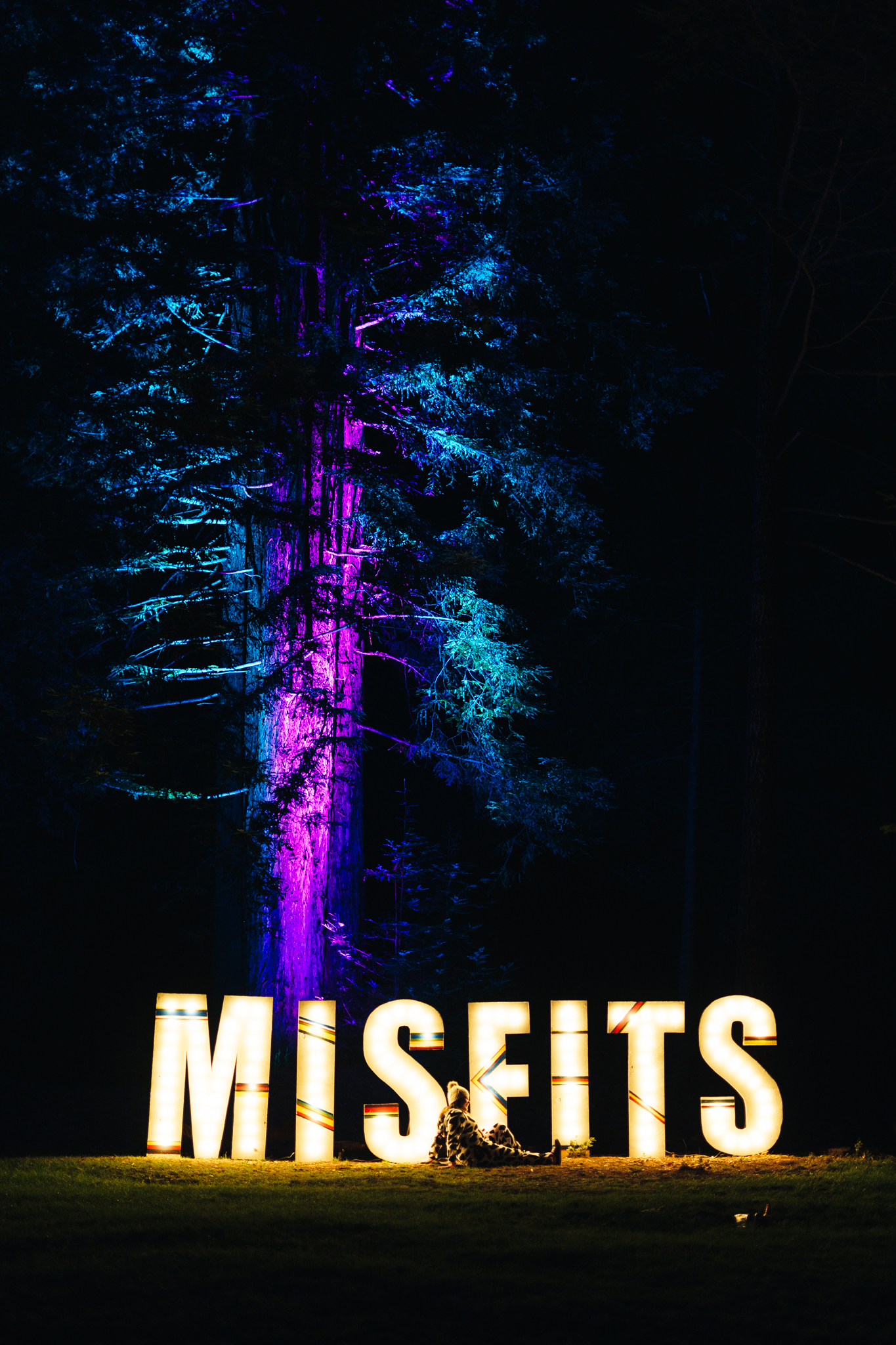 A photo from Camp Misfits 2018